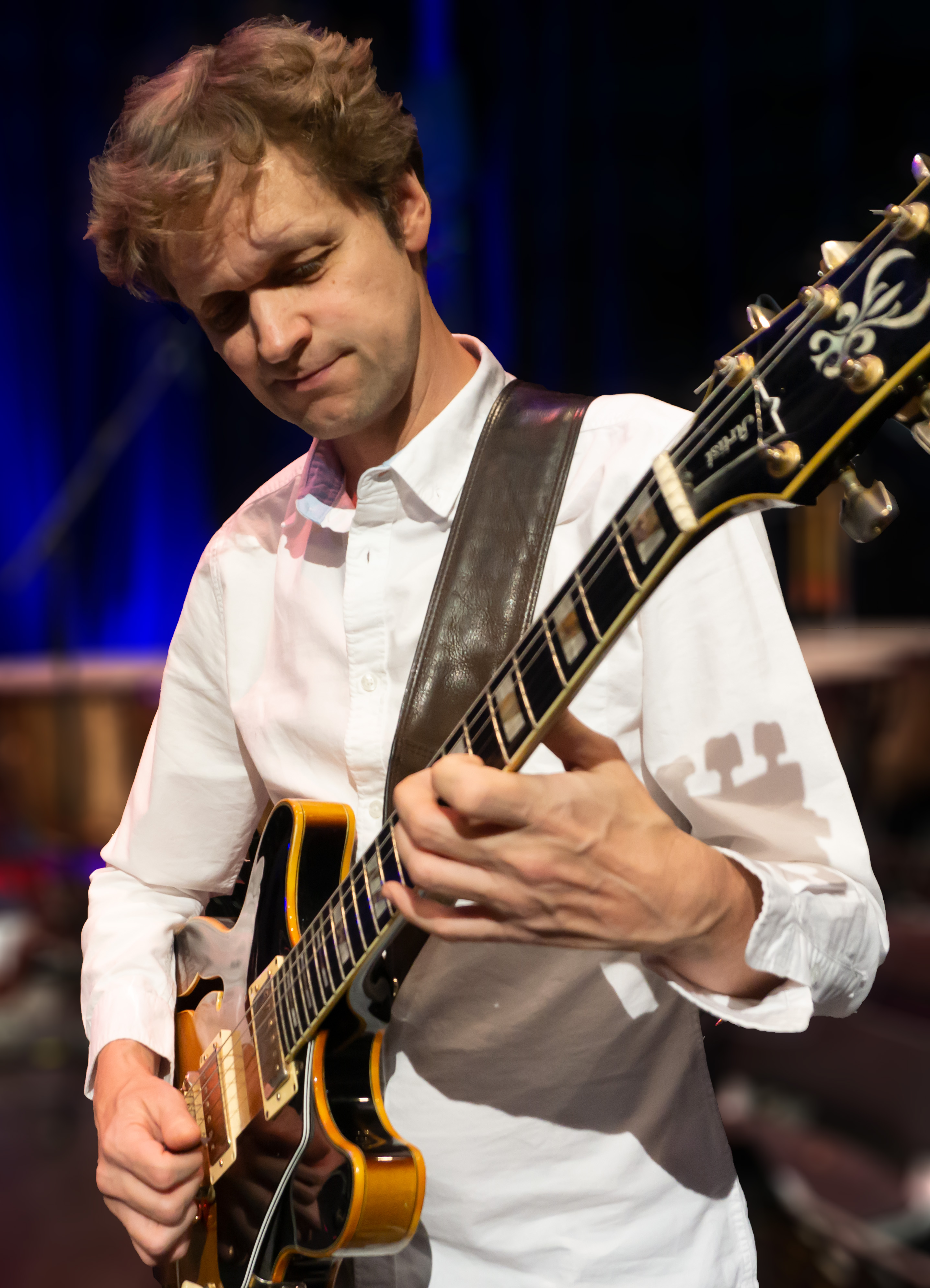 Martin Scales with Passport in Güterloh, Germany